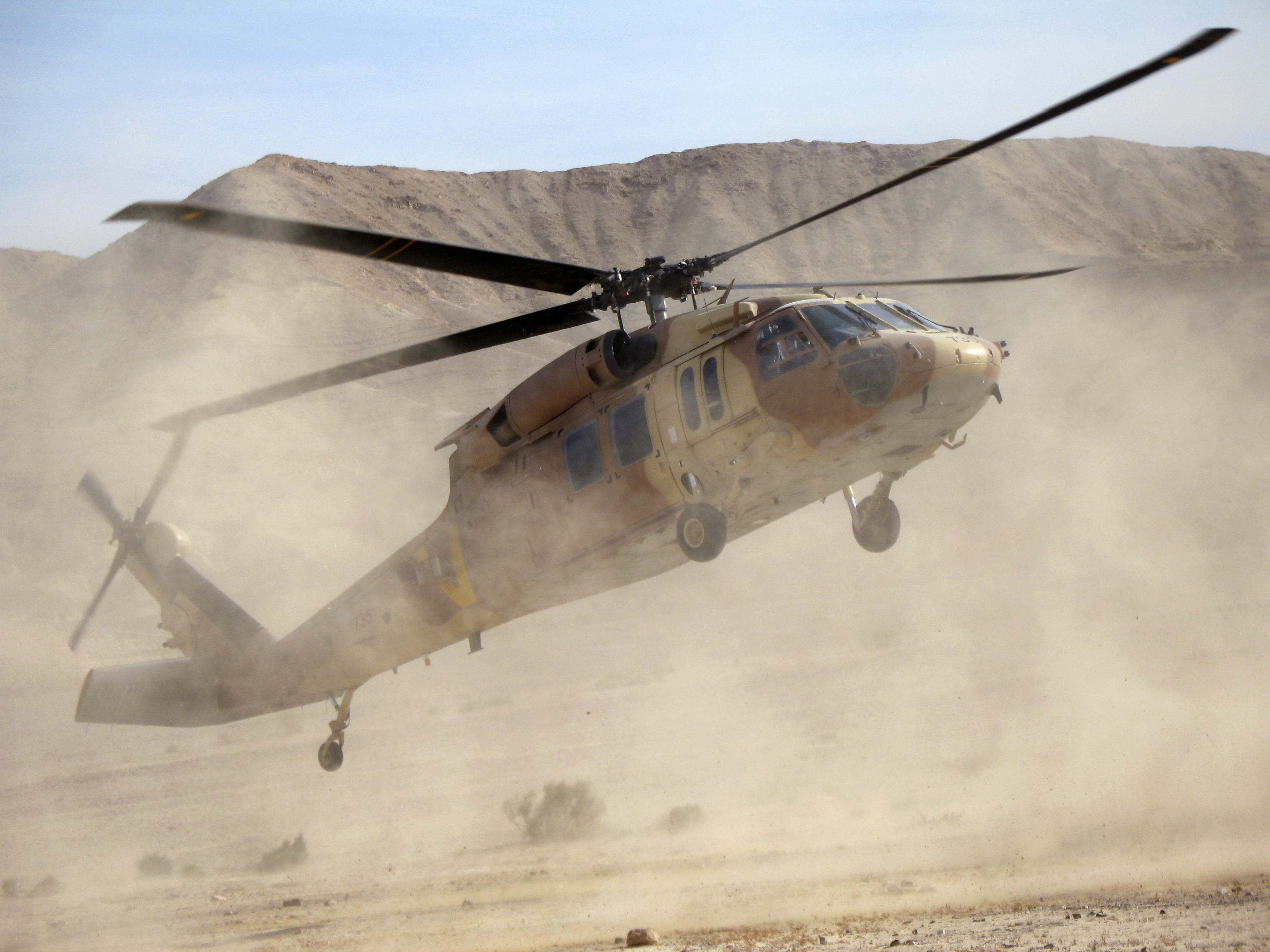 Israeli Air Force, UH-60 Black Hawk landing in the desert.